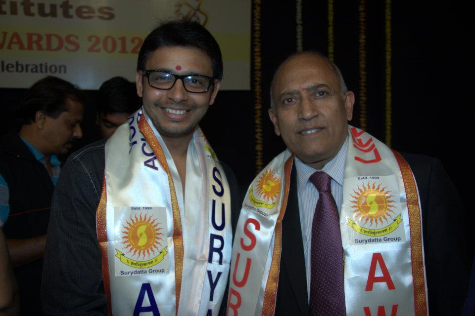 Vrishasen Dabholkar with Rakesh Sharma at Suryadutta National Awards